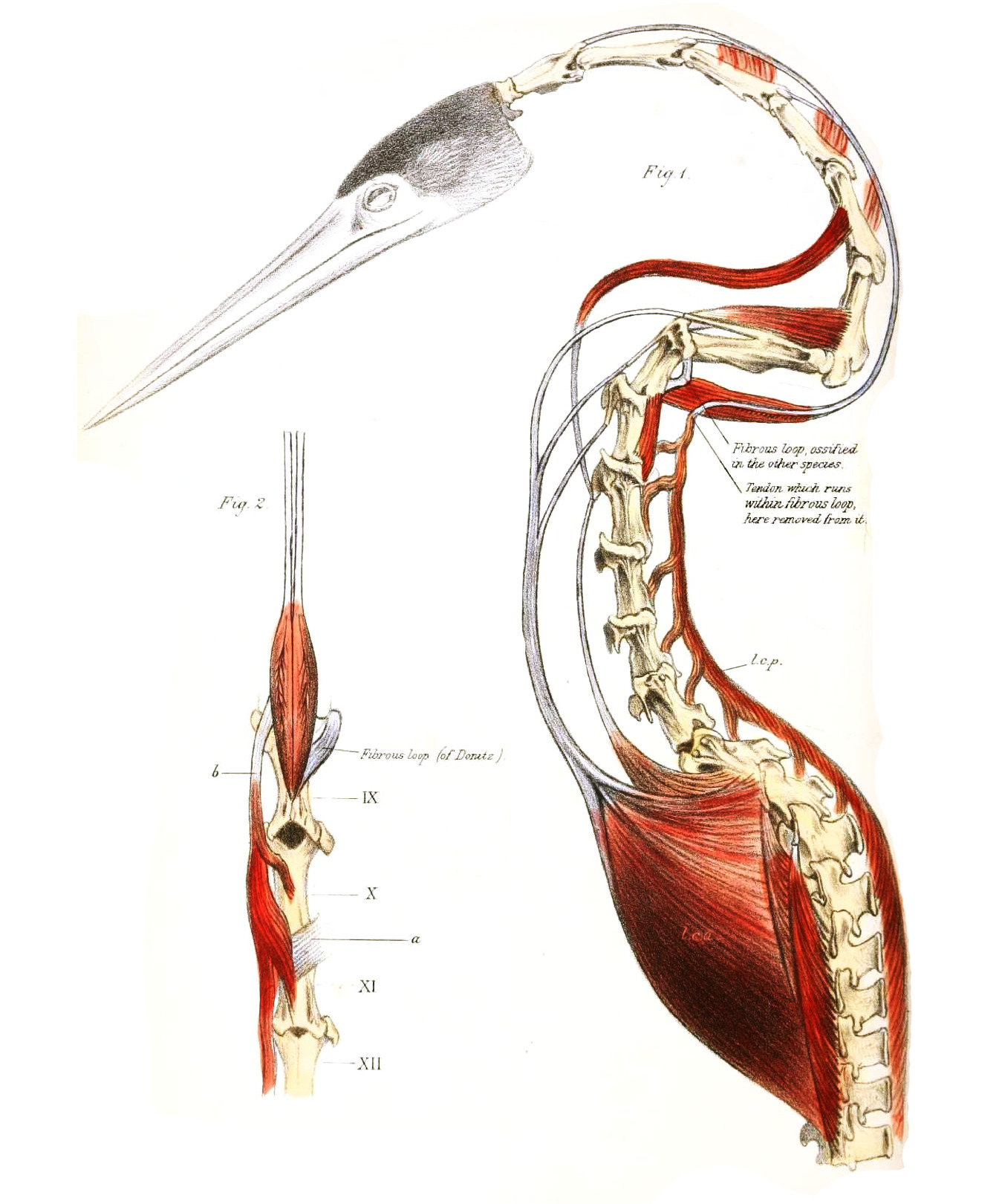 Anatomy of Anhinga anhinga - Fig. 1. View of left side of neck of Plotus anhinga, dissected. l.c.a. longus colli anterior muscle; l.c.p. longus colli posterior muscle. The fibrous representative of Donitz's bridge is seen attached to the ninth cervical vertebra. Fig. 2. View of part of the posterior region of the neck of Plotus anhinga. The roman figures refer to the cervical vertebrae counted from the head. Donitz's bridge is seen attached to the ninth; and at a is also seen a fibrous band, which is of similar function, attached to the eleventh. At b is seen the fasciculus of the tendon of the posterior neck-muscle which traverses the fibrous loop, which latter has been removed on the left side.